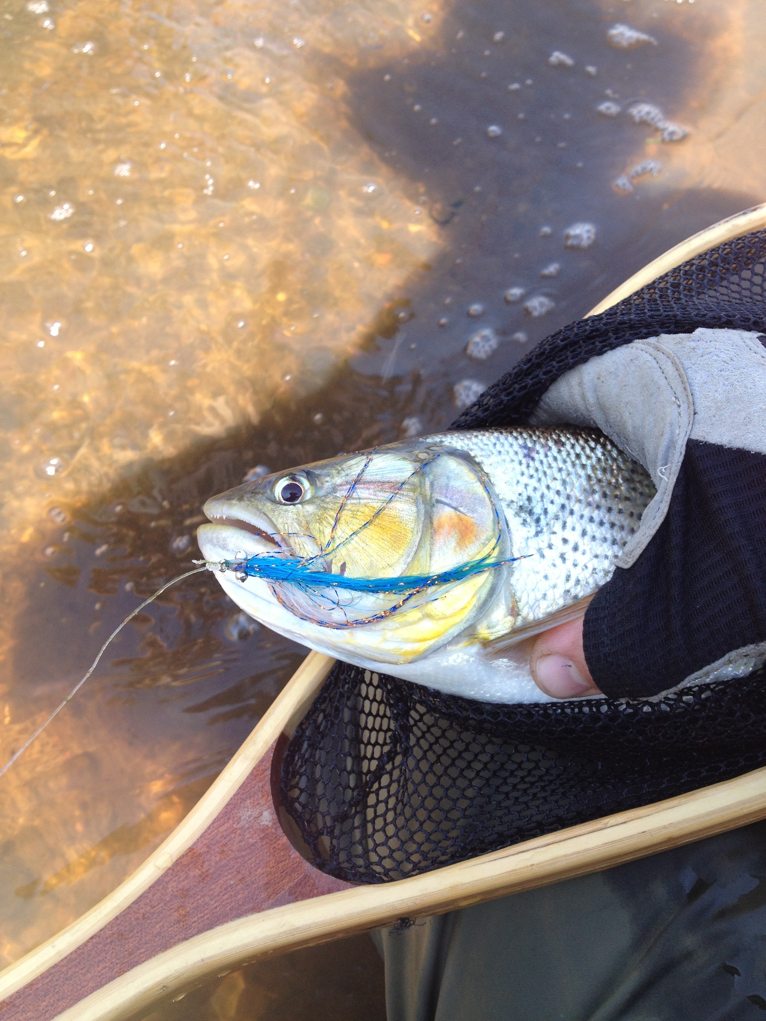 Dorado (likely Salminus hilarii) caught in a blue/white clouser minnow